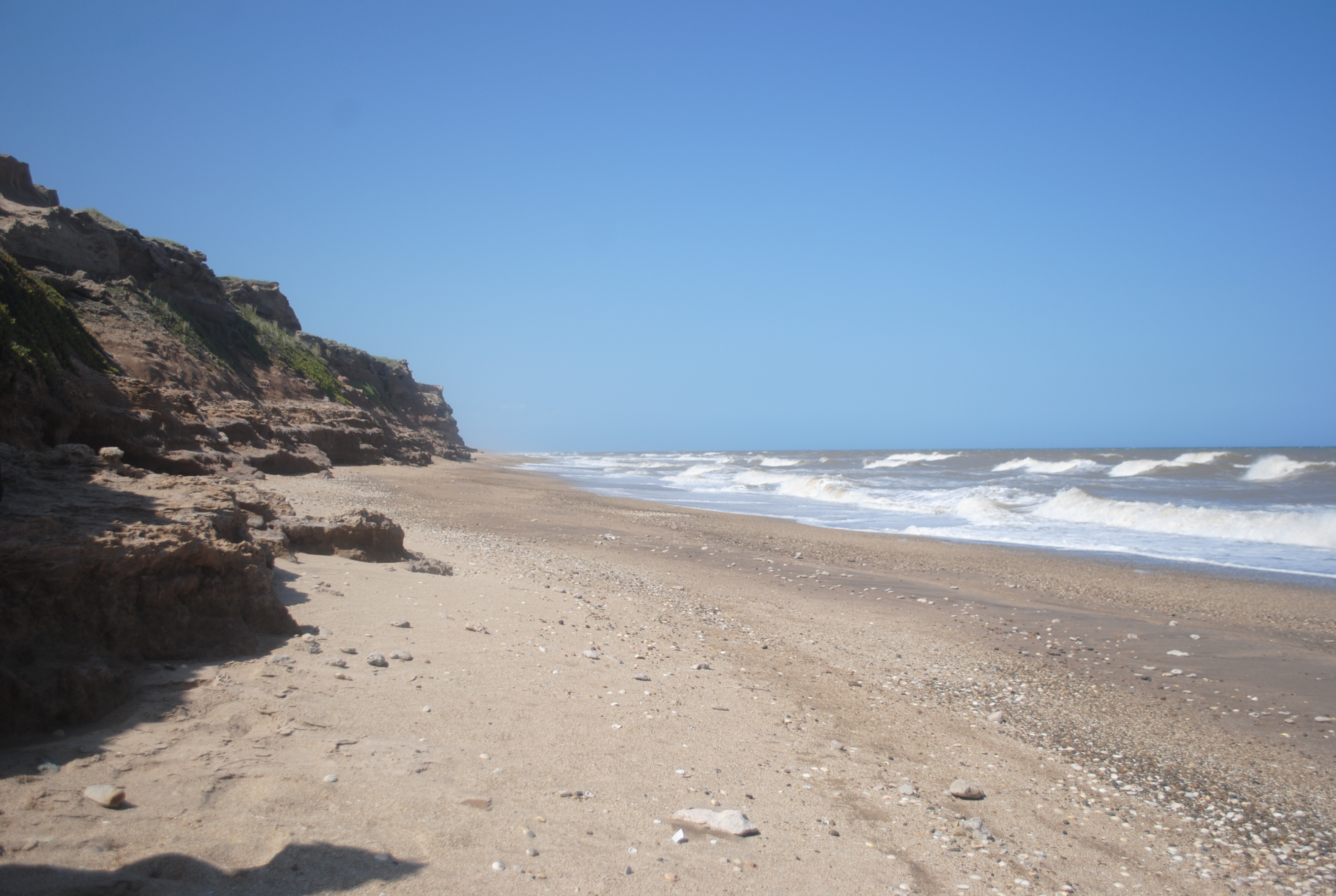 Cliff and open beach of Centinela del Mar, Buenos Aires Province, Argentina